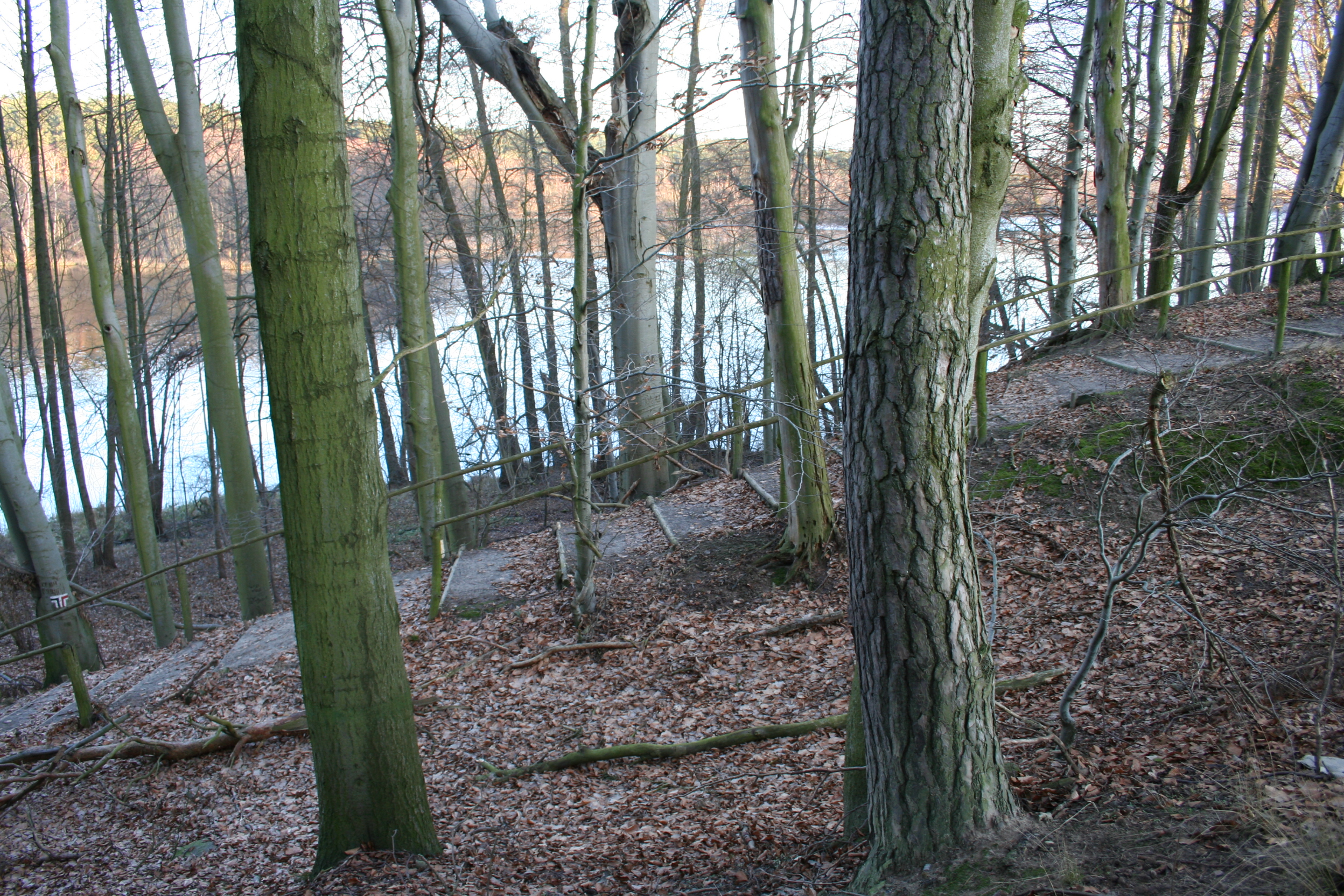 nature reserve - Buki nad jez. Lutomskim